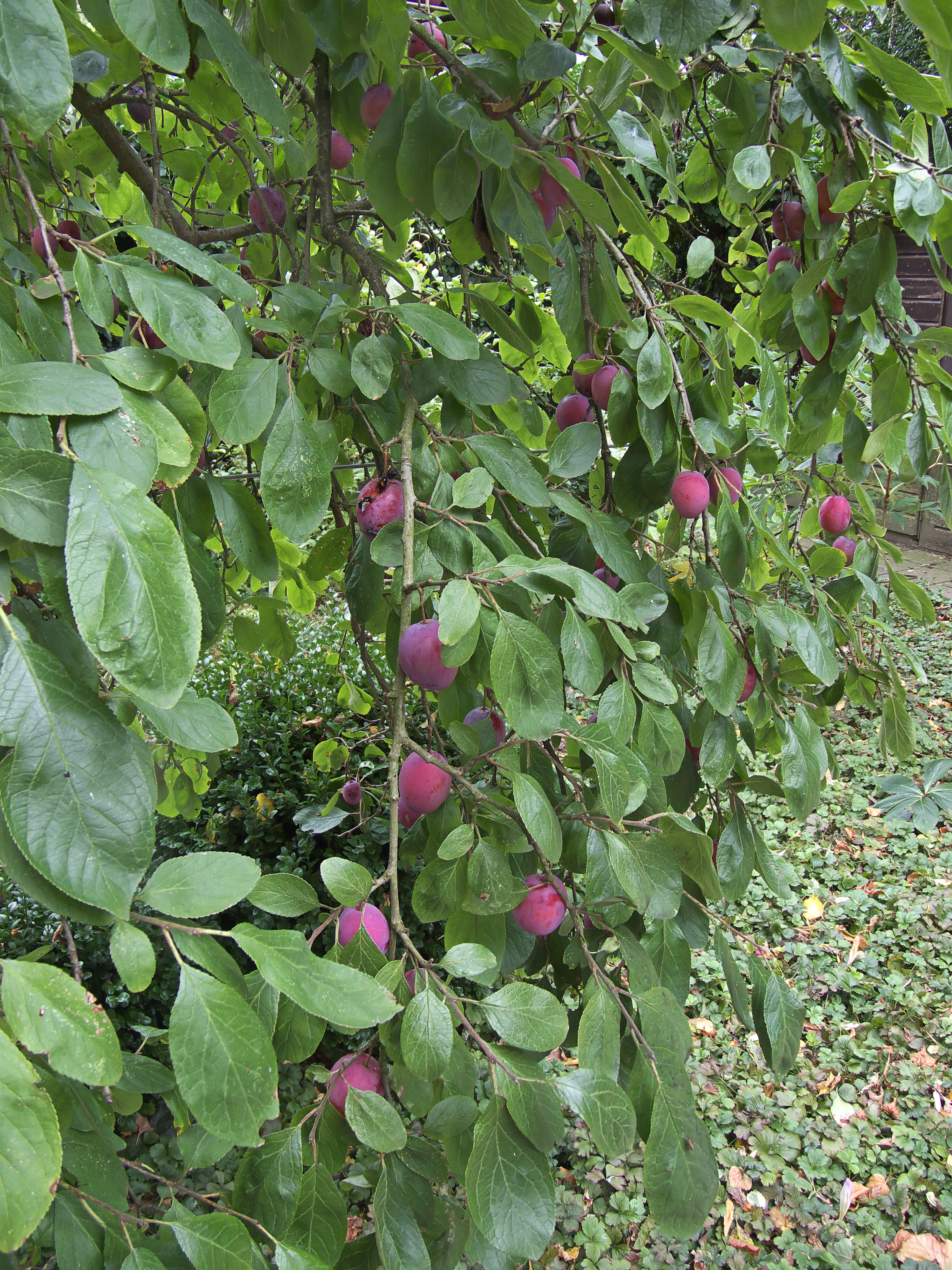 Prunus domestica 'Reine Victoria'